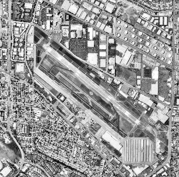 USGS digital orthophoto of Zamperini Field, an airport in California